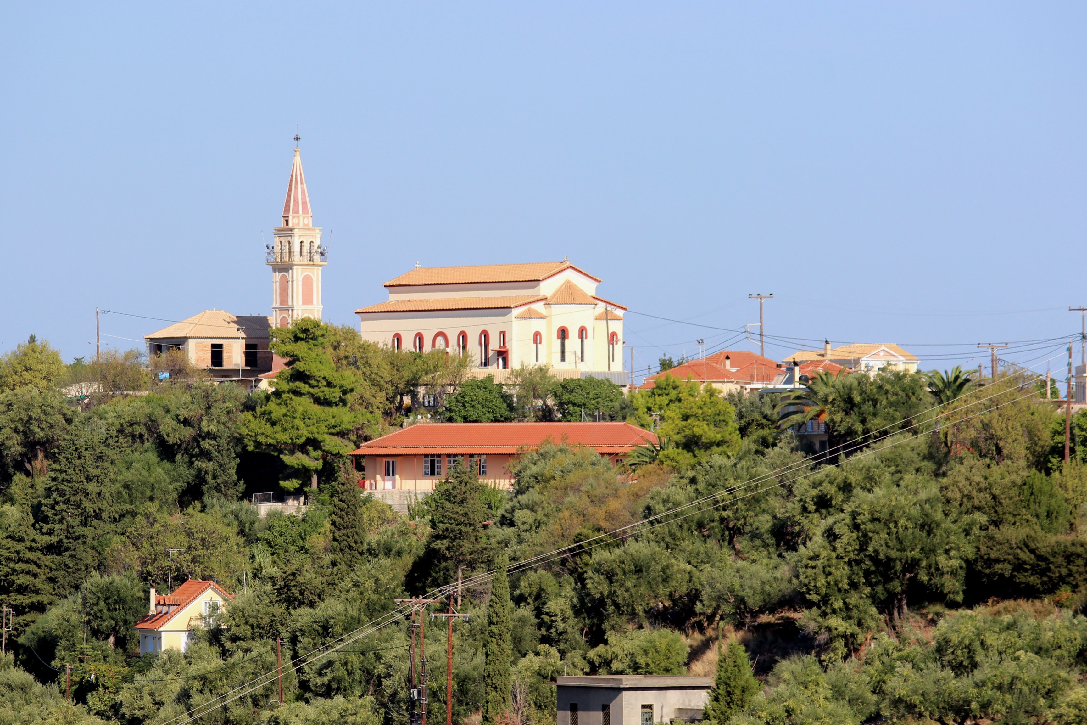 Paraskeví Church with bell tower in Kipséli, seen from across the valley in Tragáki, Zakynthos, Greek Ionian Islands